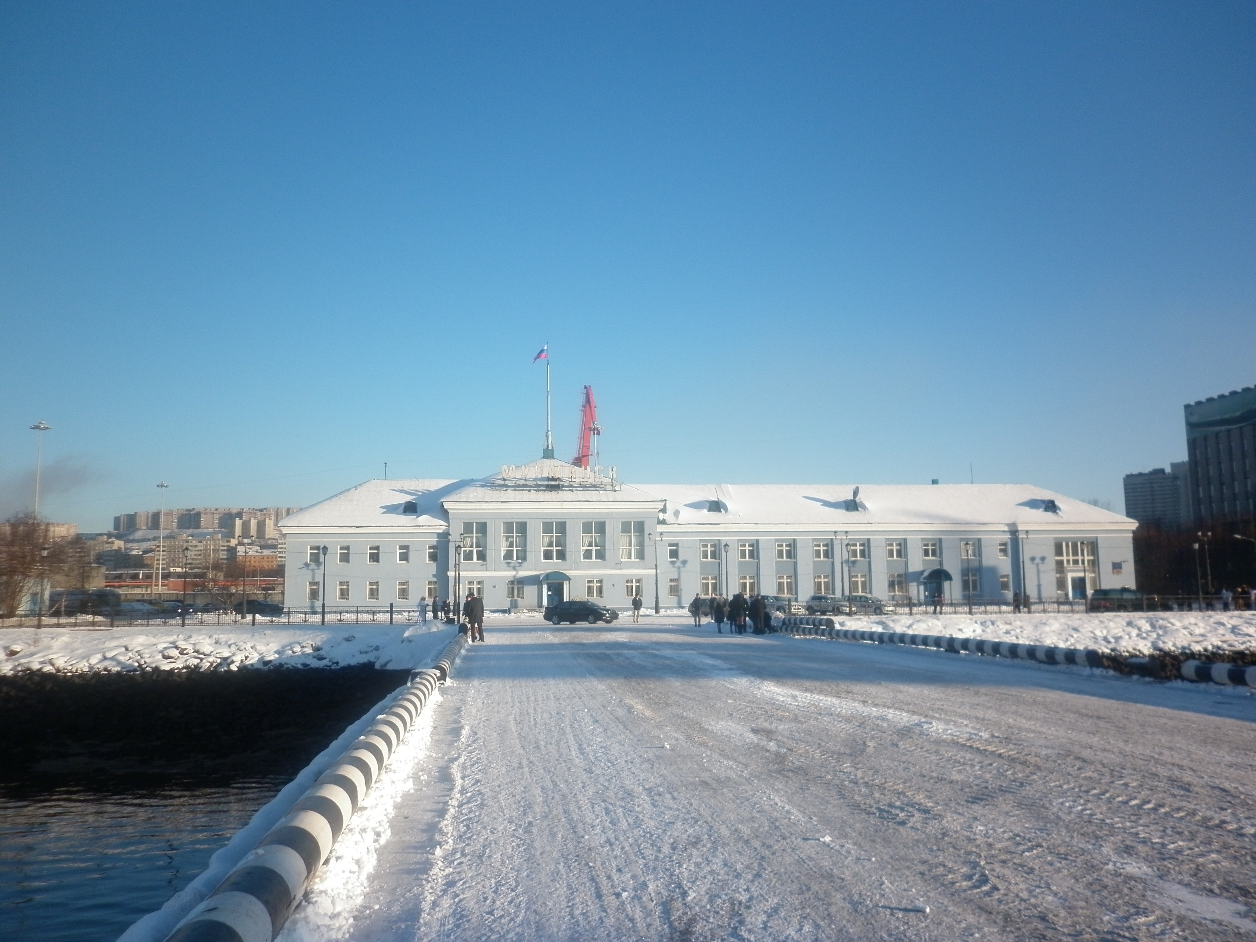 Murmansk sea terminal.